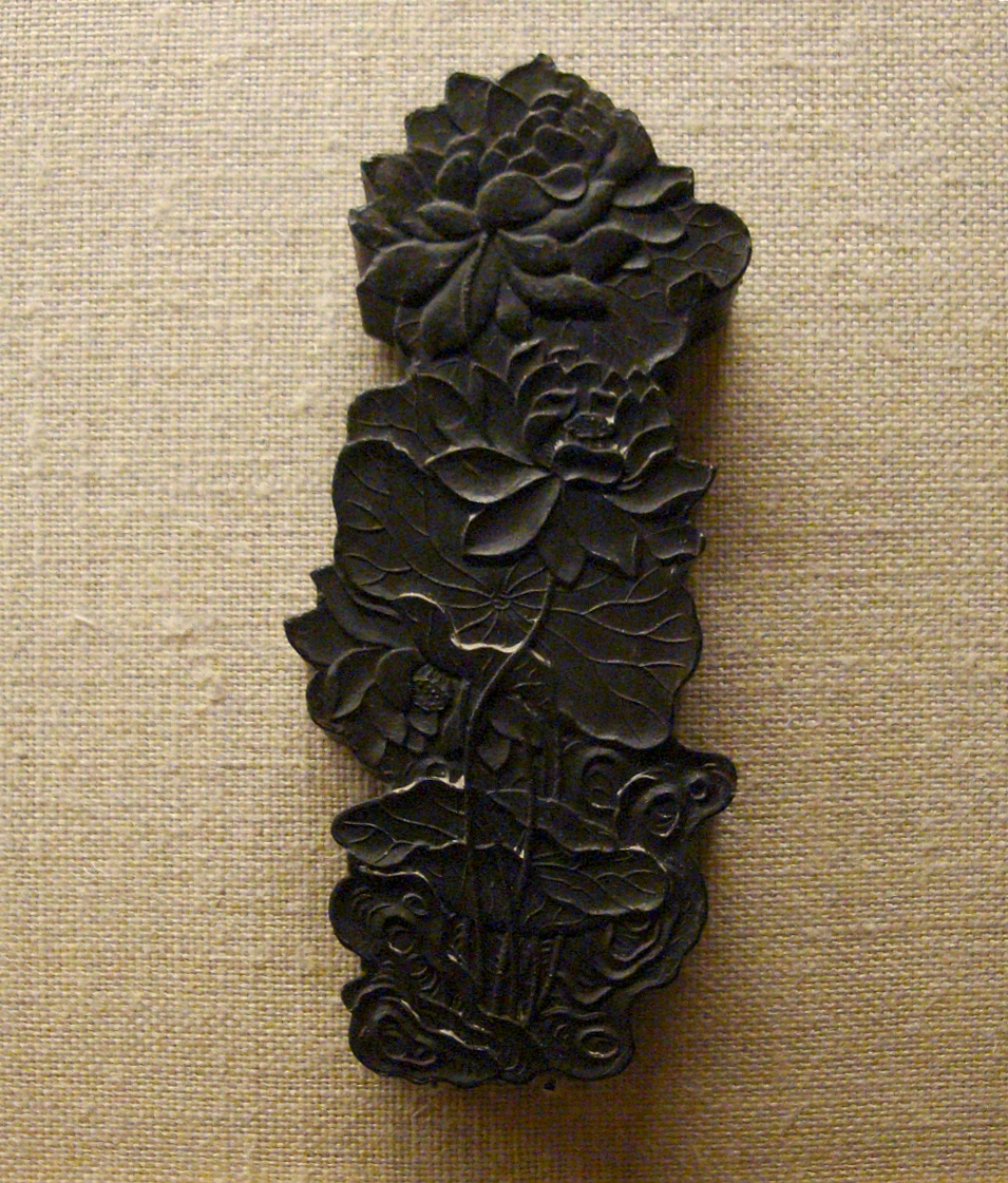 Inkstick from MET NY,NY. "Studio of Simple Satisfactions" 30.76.276